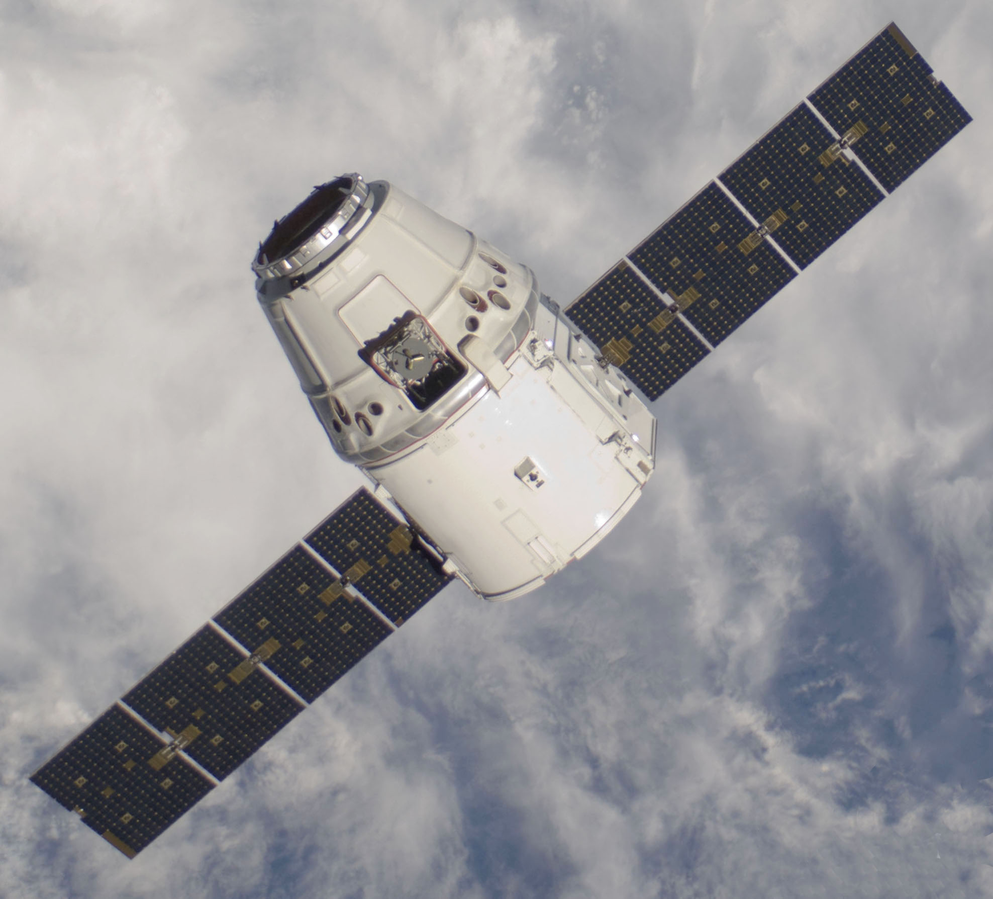 ISS031-E-071134 (25 May 2012) --- The SpaceX Dragon commercial cargo craft approaches the International Space Station on May 25, 2012 for grapple and berthing. Expedition 31 Flight Engineers Don Pettit and Andre Kuipers grappled Dragon at 9:56 a.m. (EDT) with the Canadarm2 robotic arm and used the robotic arm to berth Dragon to the Earth-facing side of the station's Harmony node at 12:02 p.m. May 25, 2012. Dragon became the first commercially developed space vehicle to be launched to the station to join Russian, European and Japanese resupply craft that service the complex while restoring a U.S. capability to deliver cargo to the orbital laboratory. Dragon is scheduled to spend about a week docked with the station before returning to Earth on May 31 for retrieval.